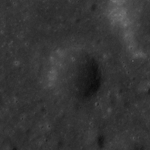 Horatio crater, Taurus–Littrow valley, on the moon. Sun elevation 46 deg., spacecraft altitude 112 km.